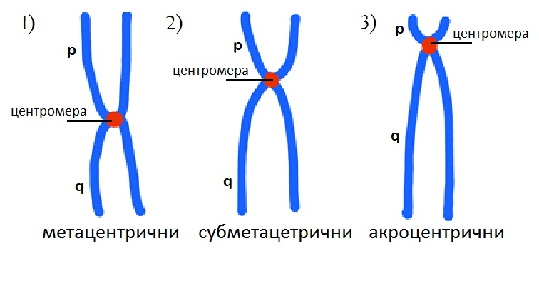 3 types of chromosomes according to place where's centromere (metacentric, sub-metacentric and acrocentric). Note: here's only that ones that exist in human body. Српски (ћирилица): Врсте хромозома у односу на положај центромере (метацентрични, субметацентрични и акроцентрични). Напомена: на слици су само они који постоје у људском организму, иако постоји још врста, попут телоцентричног - специфичан за кухињског миша, субтелоцентрични, холоцентрични и други.